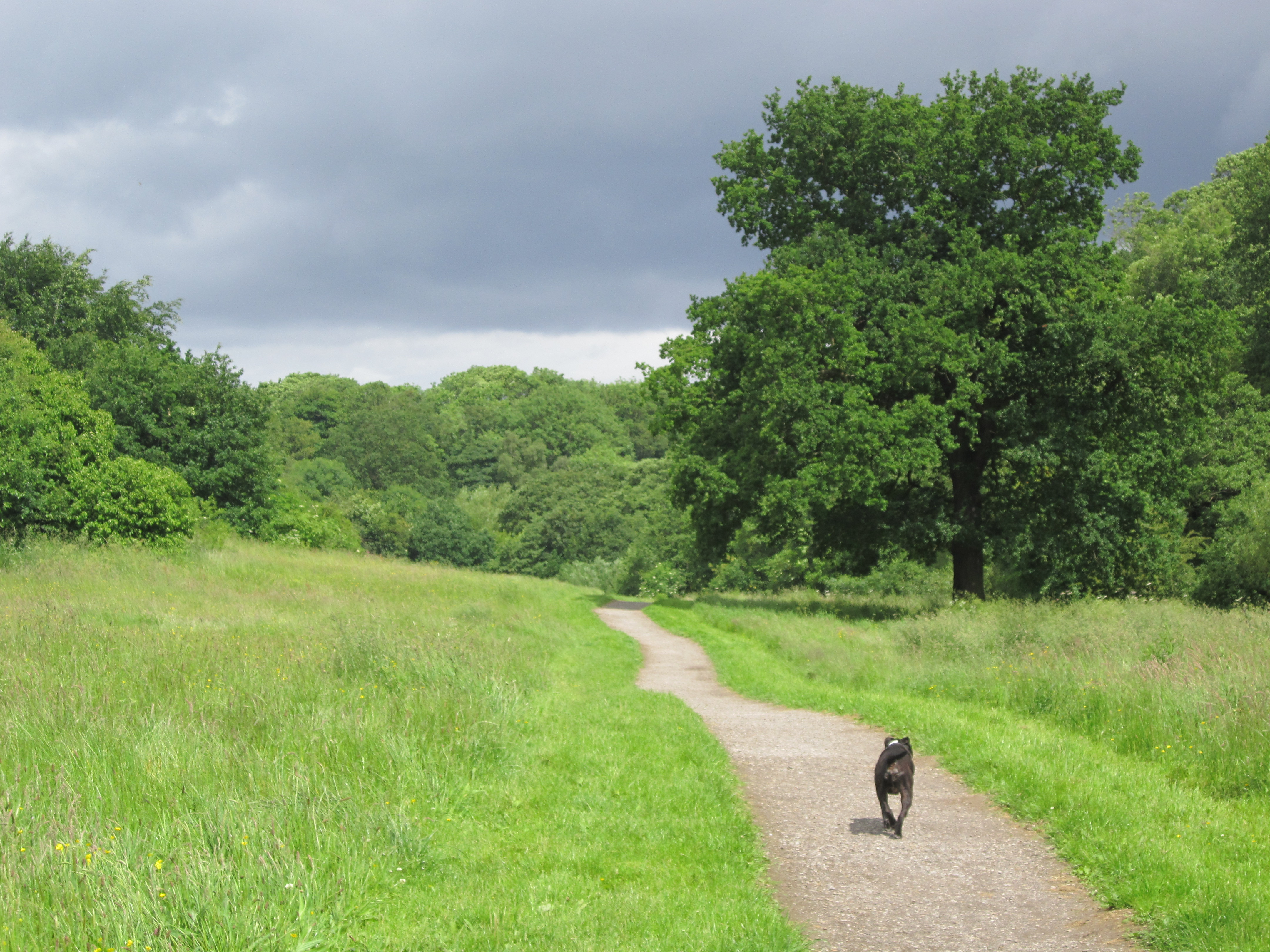 Photo taken at Rivacre Valley Country Park, Ellesmere Port, Cheshire, England.